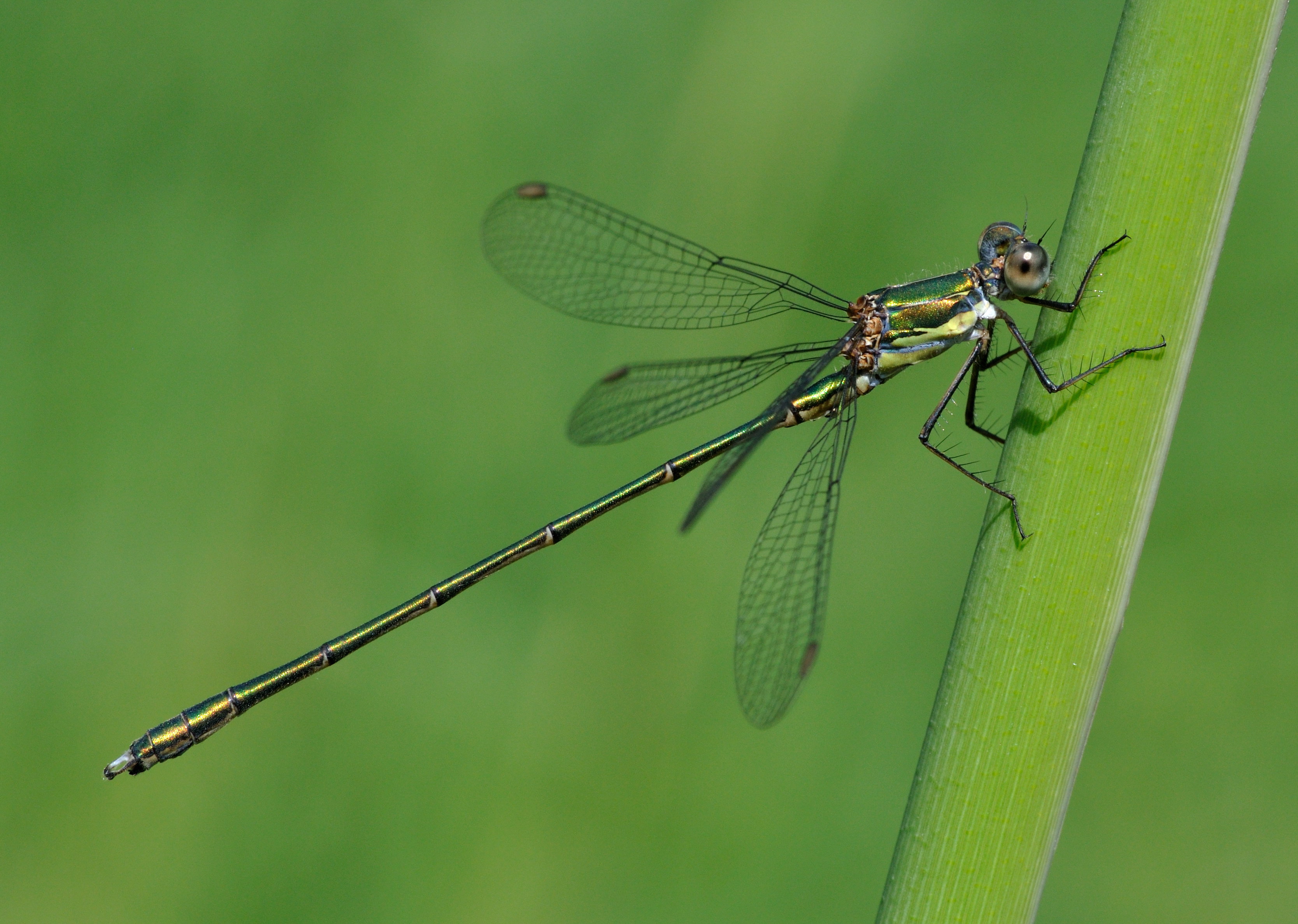 Male Willow Emerald Damselfly (Chalcolestes viridis) at a retention basin in Ahlen, Germany.